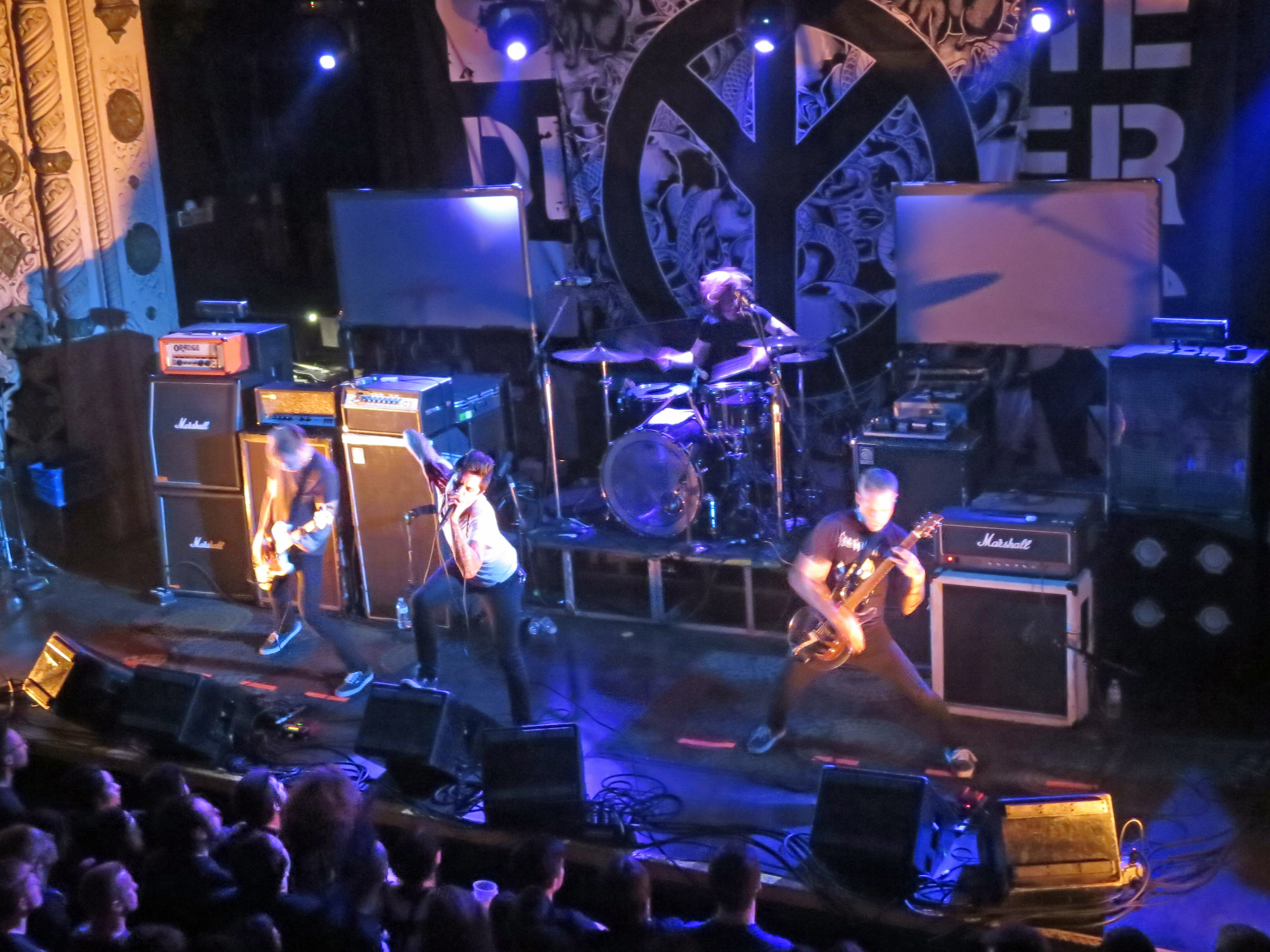 The American rock band Retox performing live in Chicago on April 11, 2014